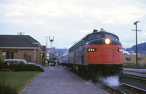 The Pacific International at the ex-Great Northern Railway station in Bellingham, Washington in July 1973